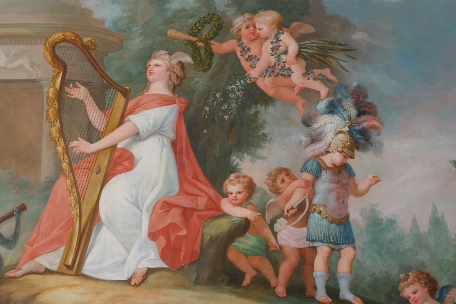 Murals painting of Academia room by Cyril Wolkmar Machado